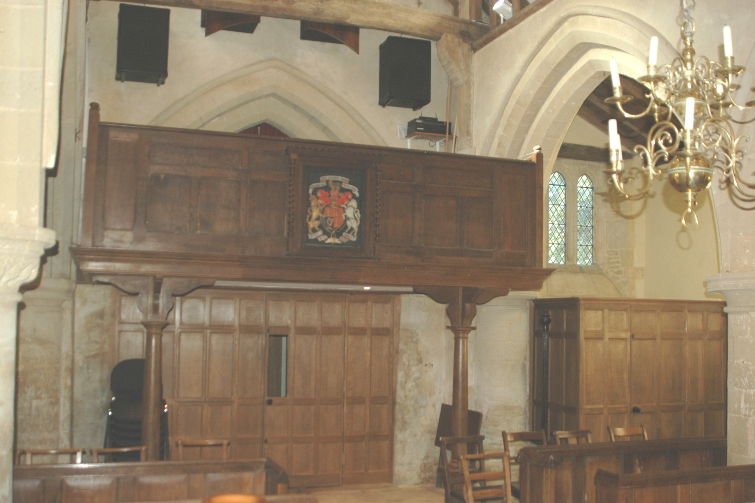 18th century west gallery of St Nicholas' parish church, Ickford, Buckinghamshire